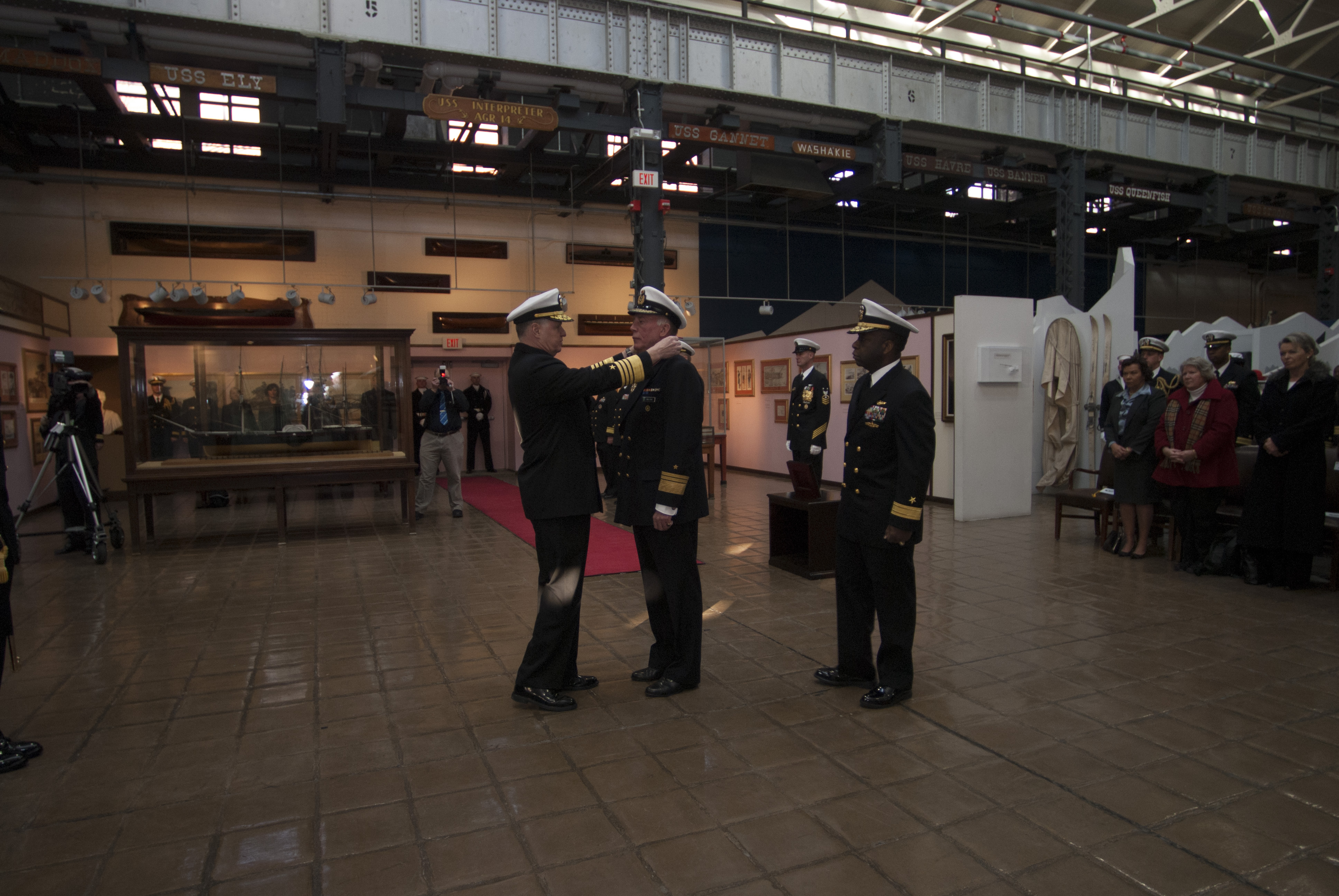 U.S. Navy Chief of Naval Operations Adm. Gary Roughead, left, awards the Legion of Merit Medal to German navy Vice Adm. Wolfgang E. Nolting, chief of Naval Staff, while Rear Adm. Earl L. Gay, the commandant of Naval District Washington, watches during a welcoming ceremony inside the National Museum of the U.S. Navy at the Washington Navy Yard in Washington, D.C., Jan. 25, 2008. Roughead hosted Nolting during his visit to the United States. (U.S. Navy photo by Mass Communication Specialist 1st Class Tiffini M. Jones/Released)